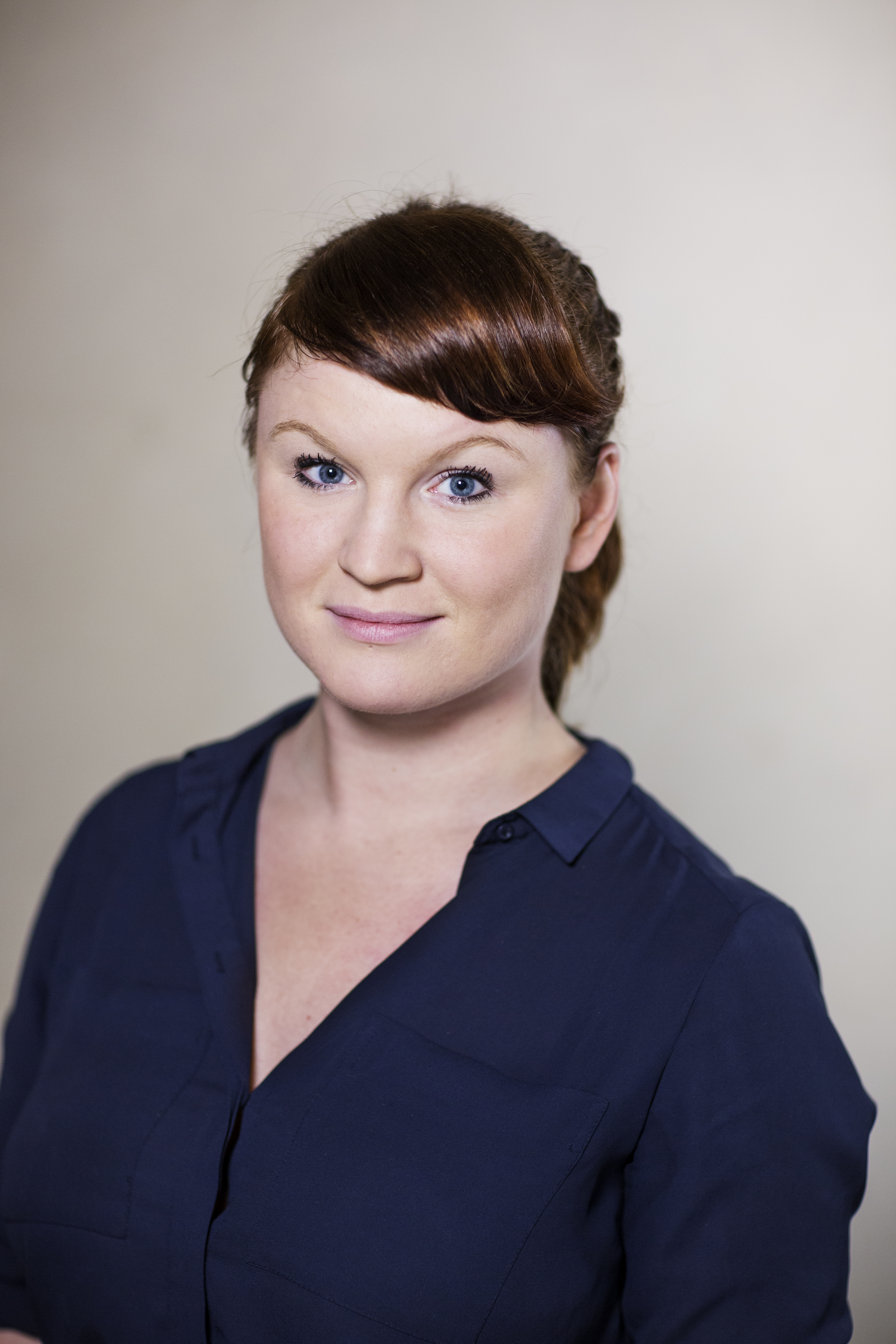 Clara Lindblom 2014